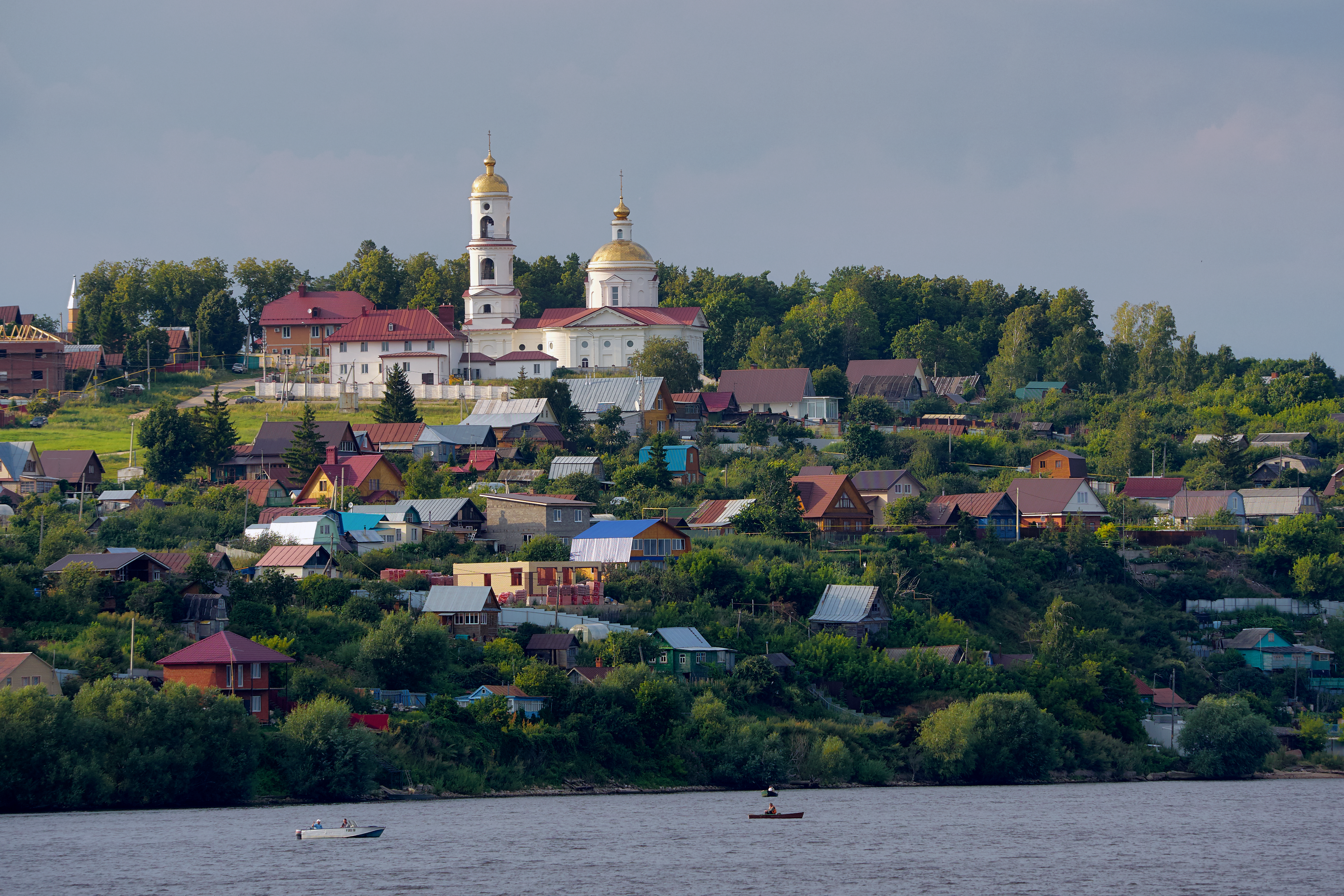 Volga river. Klyuchishchi. Church of the Nativity of John the Baptist